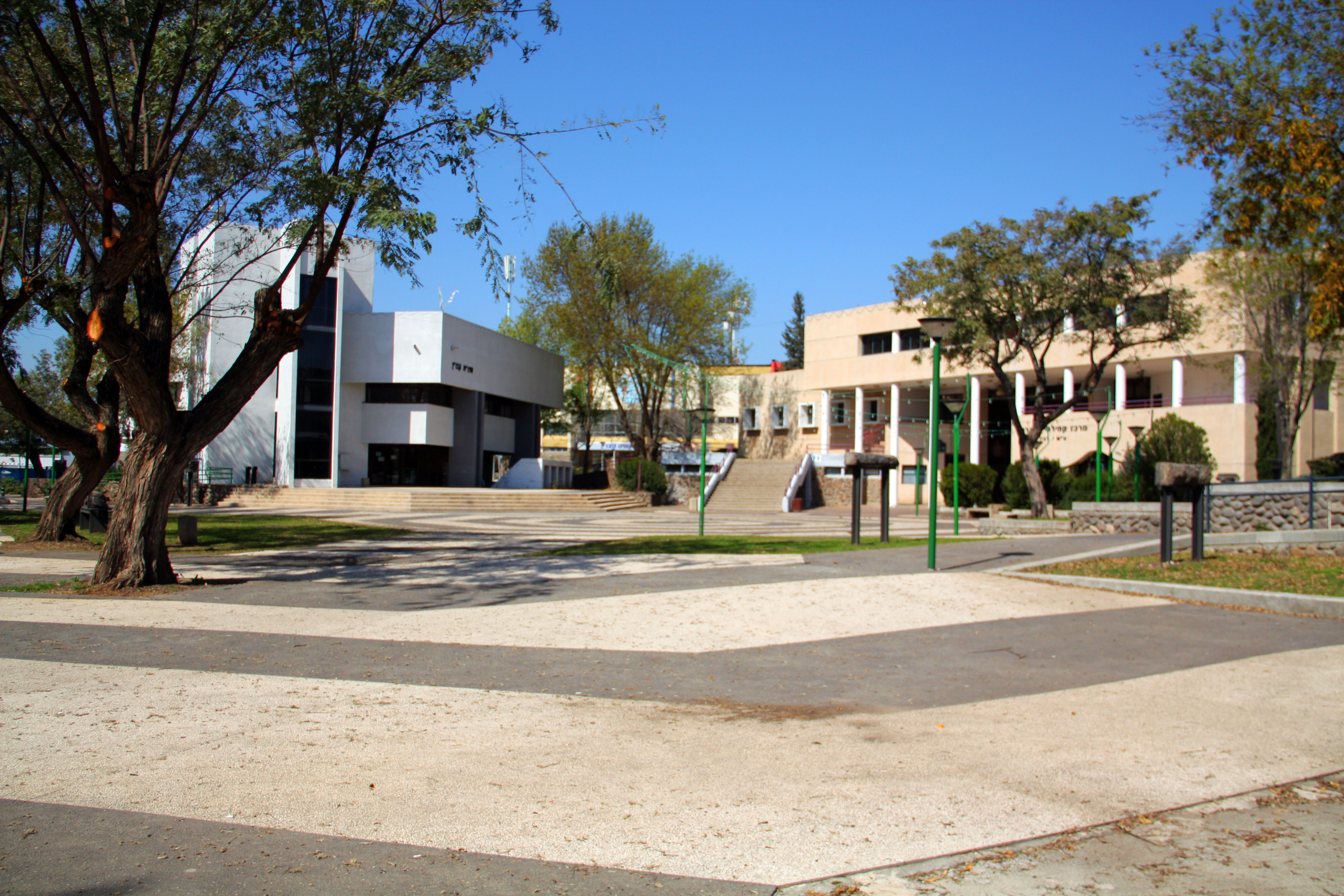 Community center and library of Katzrin